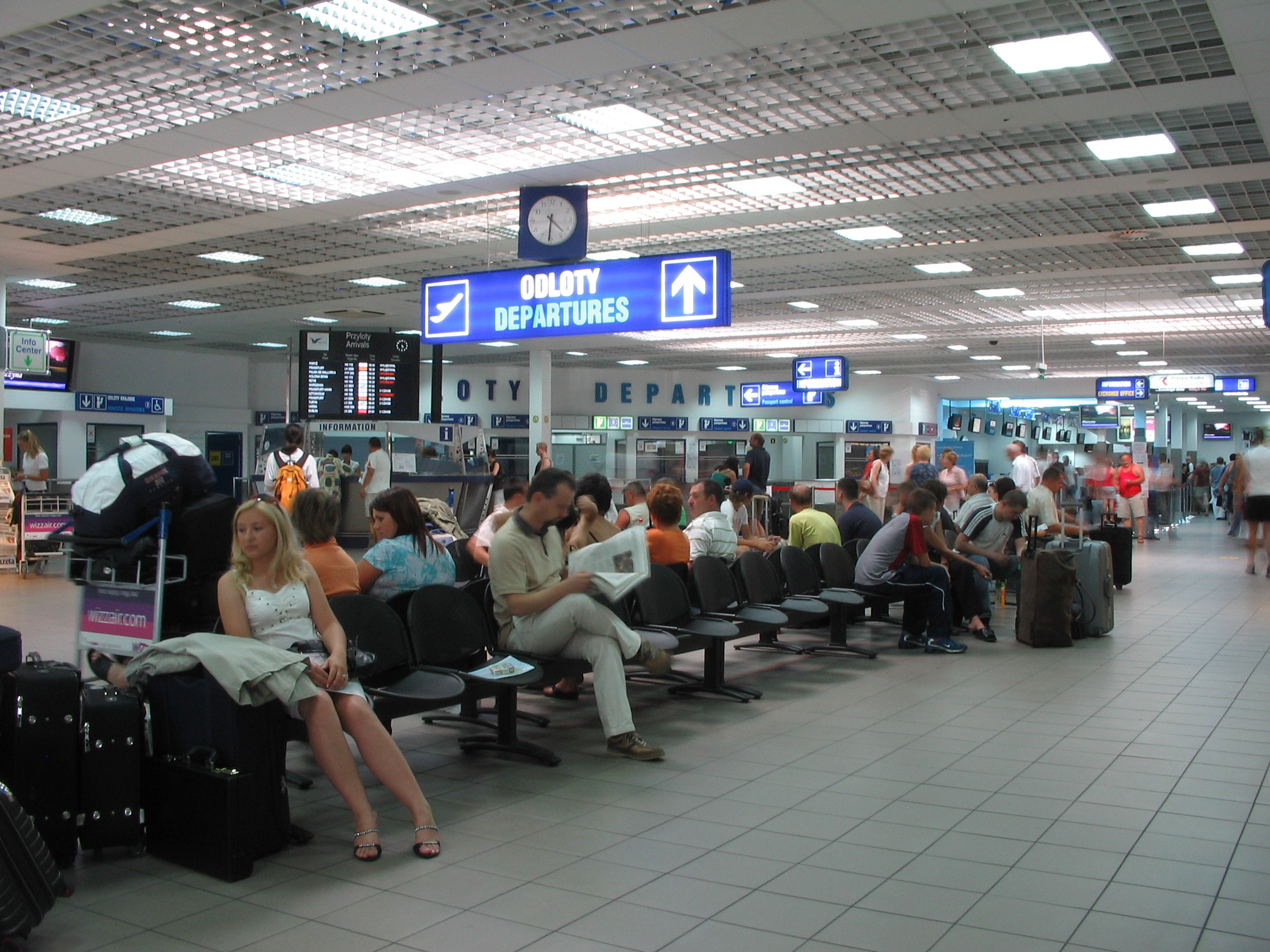 Katowice International Airport in Pyrzowice - terminal A - waiting room, with check-in counters visible in the background